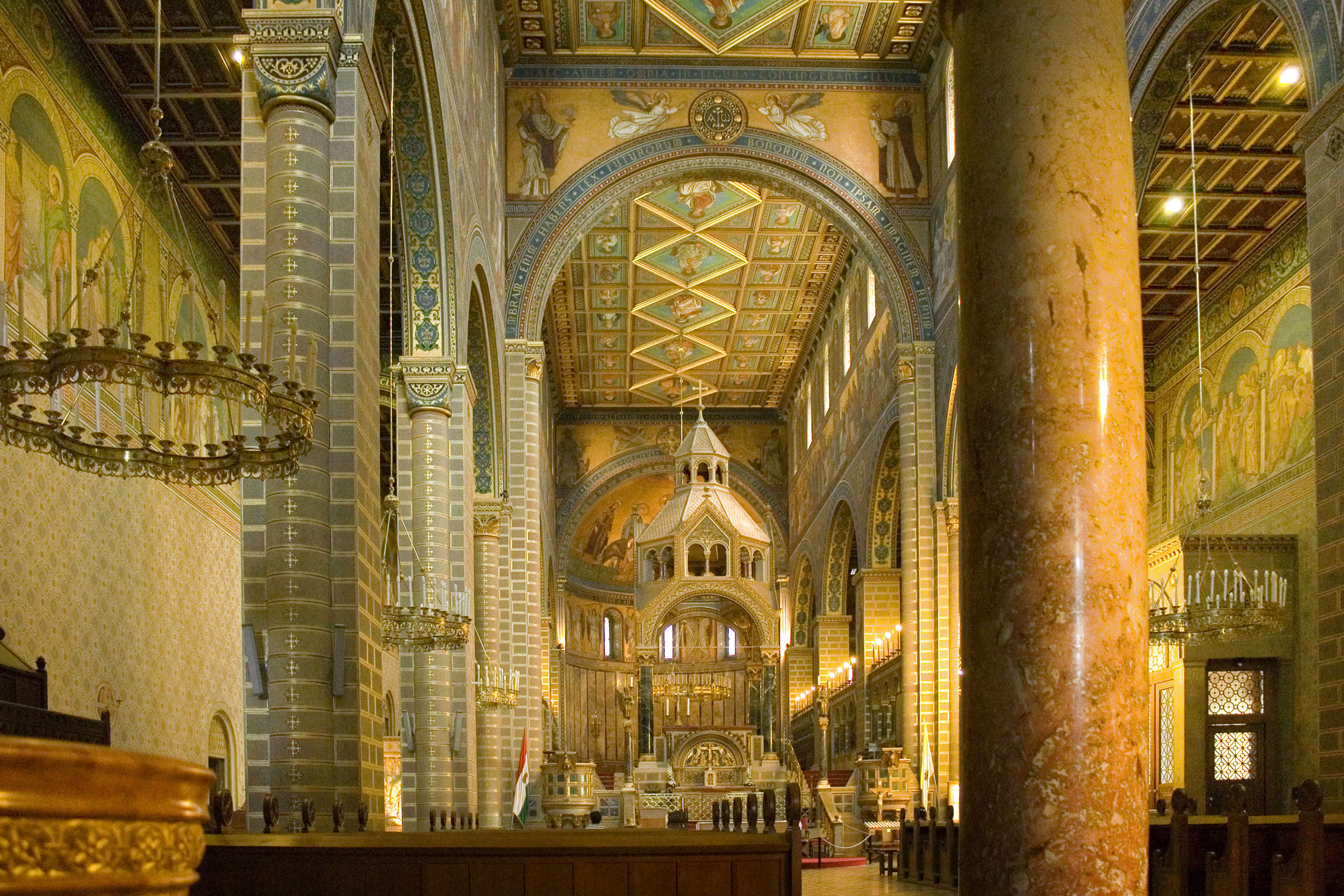 Pecs - Interior of Cathedral- Hungary